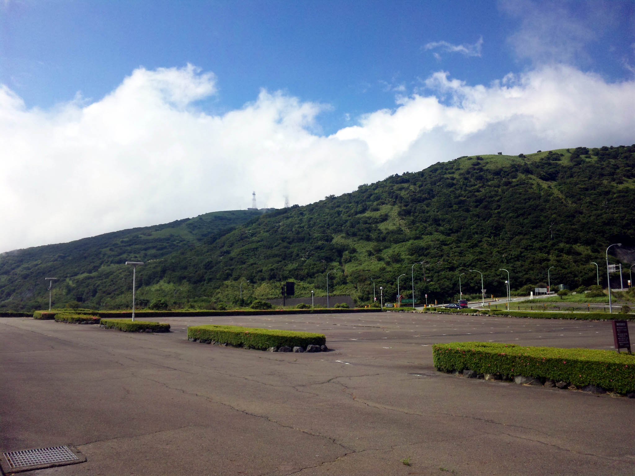 Mount Kurakake (Kurakake-yama) as seen from the south in the border between Shizuoka and Kanagawa Prefecture, Japan.